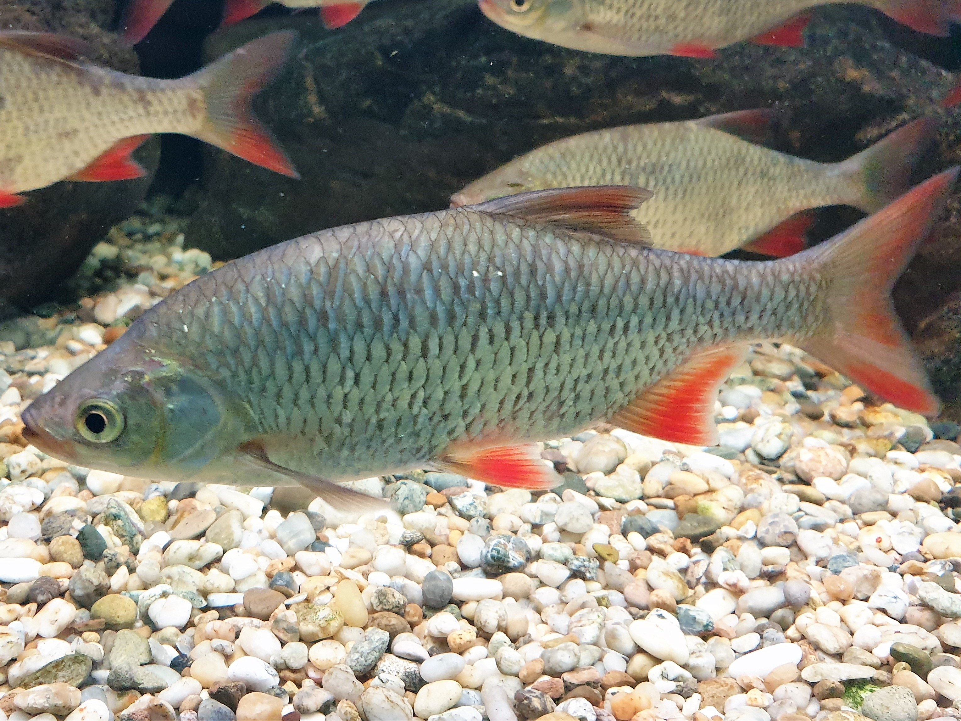 Common rudd (Scardinius erythrophthalmus) at the Bodorka Balaton Aquarium in Balatonfüred, Hungary.